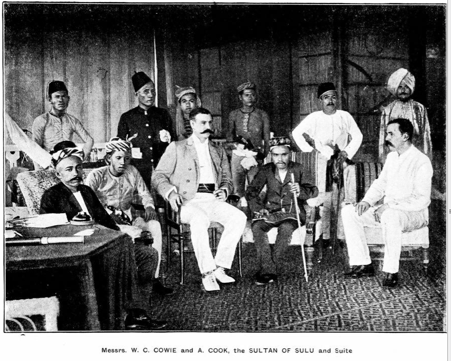 North Borneo Chartered Company: W. C. Cowie and A. Cook, the Sultan of Sulu